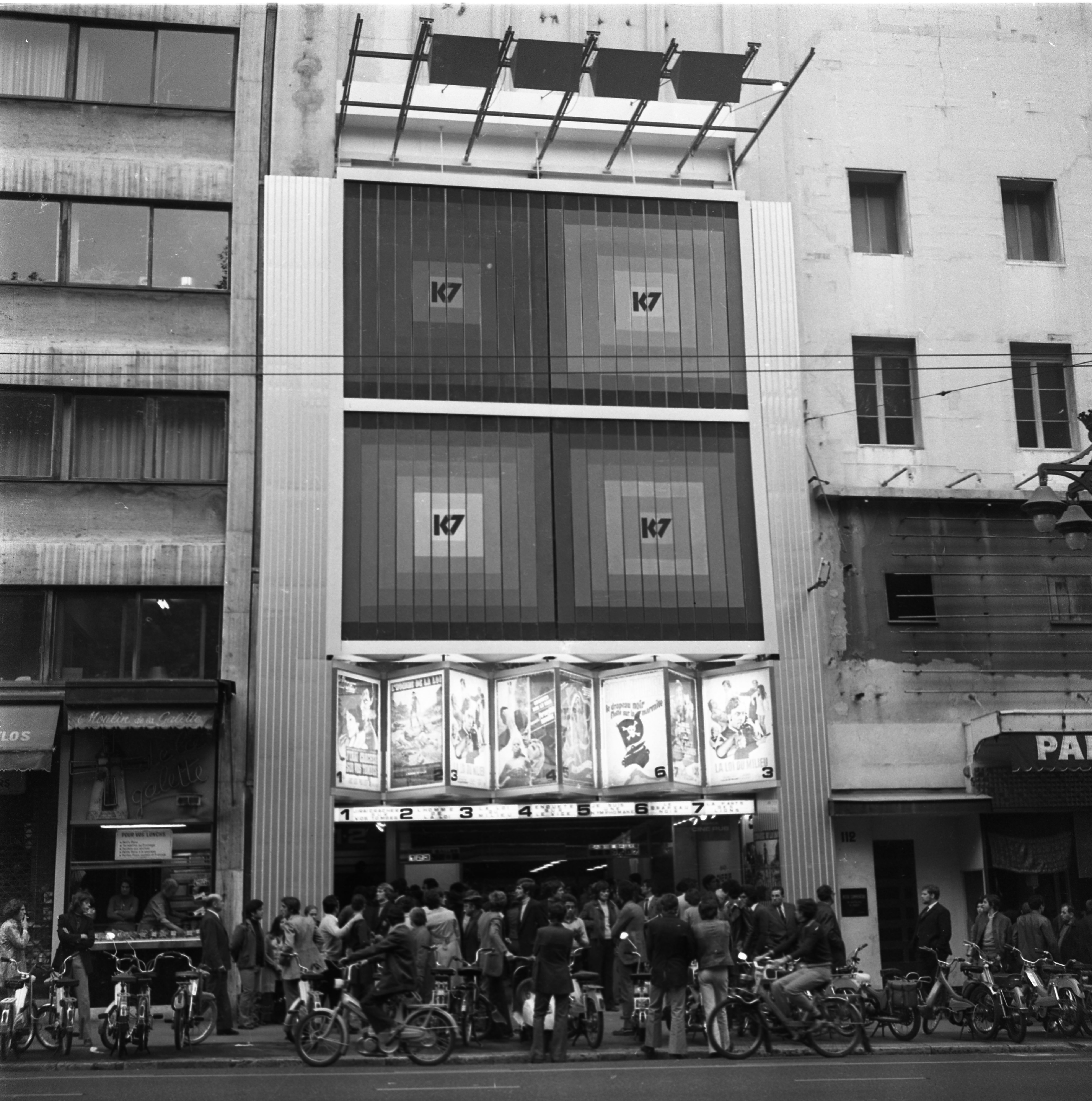 Marseille La Canebière 112-114., K7 mozi. Tags: movie theater, scooter